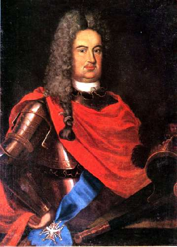 Portrait of Boris Sheremetev (1652-1719)